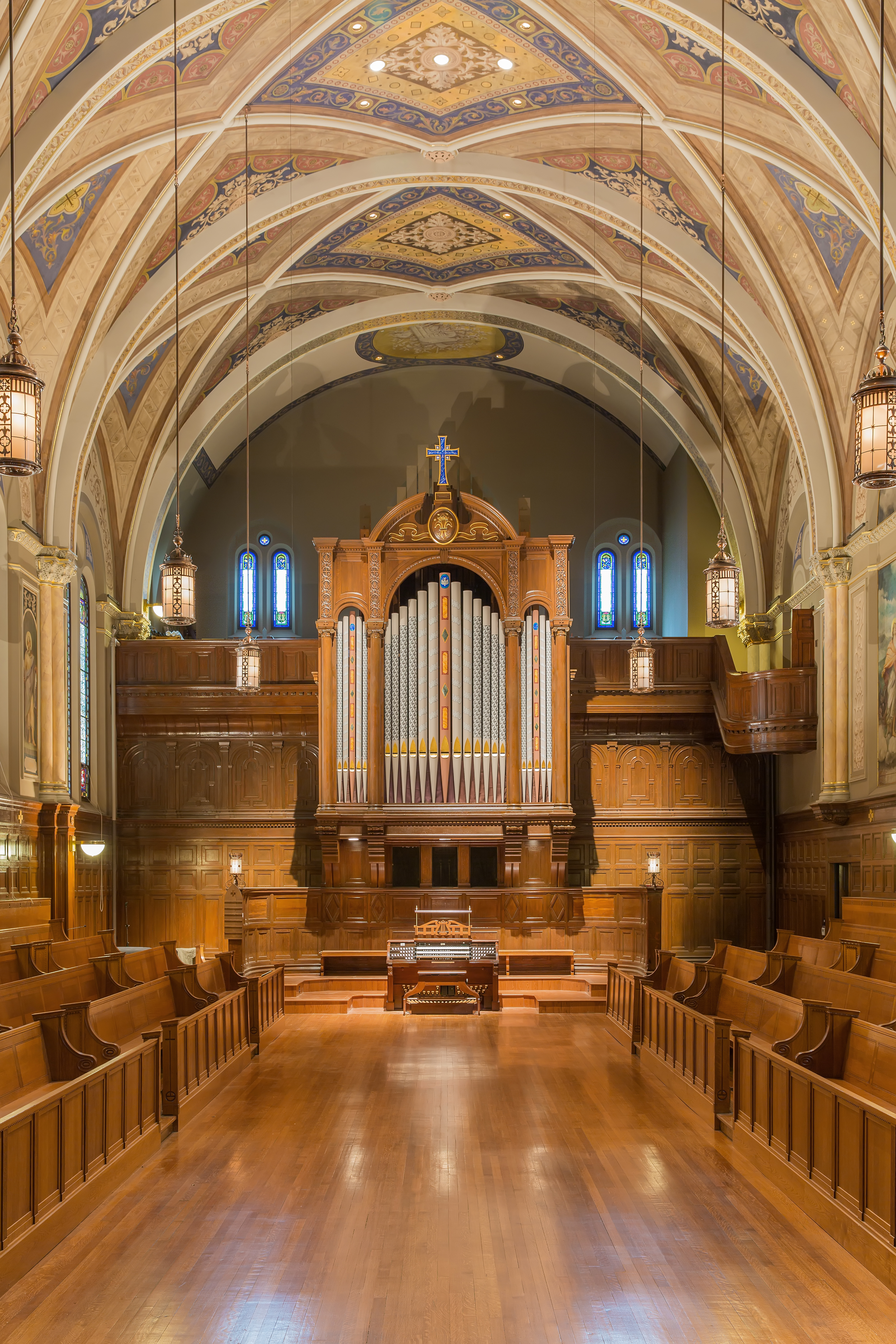 St. John's Seminary - Brighton, Mass.